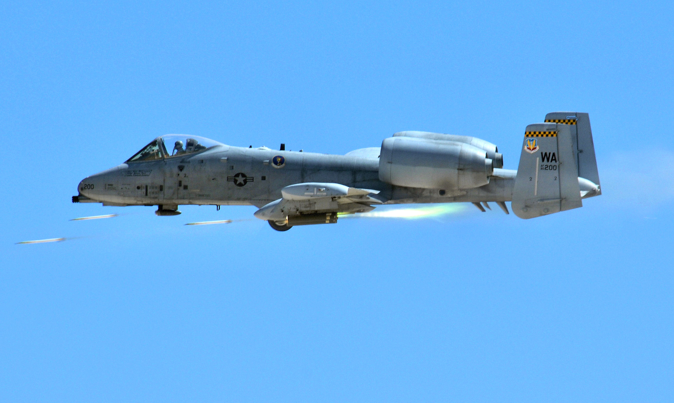 An A-10 Thunderbolt II launches rockets at a simulated hostile target, Sept. 14, 2007 during the firepower demonstration held at Nevada Test and Training Range. The demonstration gives the public a close-up and realistic view into the Air Force's ability to perform its wartime mission. (USAF photo by Staff Sgt. Kenny Kennemer Aircraft was sent to to AMARC as AC0233 Sep 27, 2000. Returned to Service Nov 30, 2000.